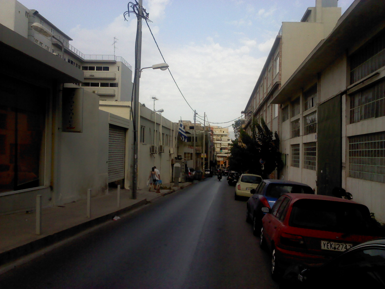 Odos Sokratous Bourla